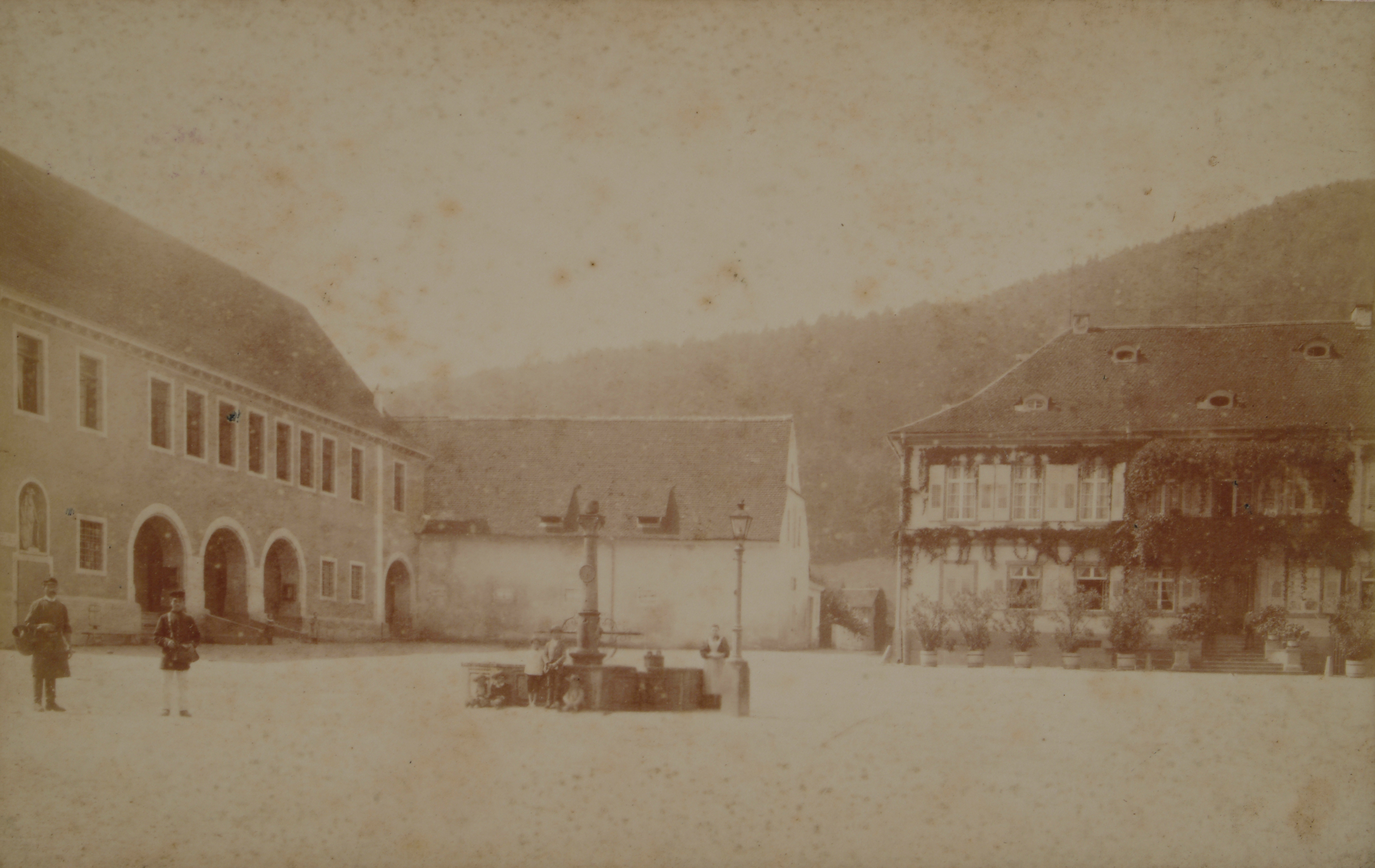 Foto Schloss Sulzburg